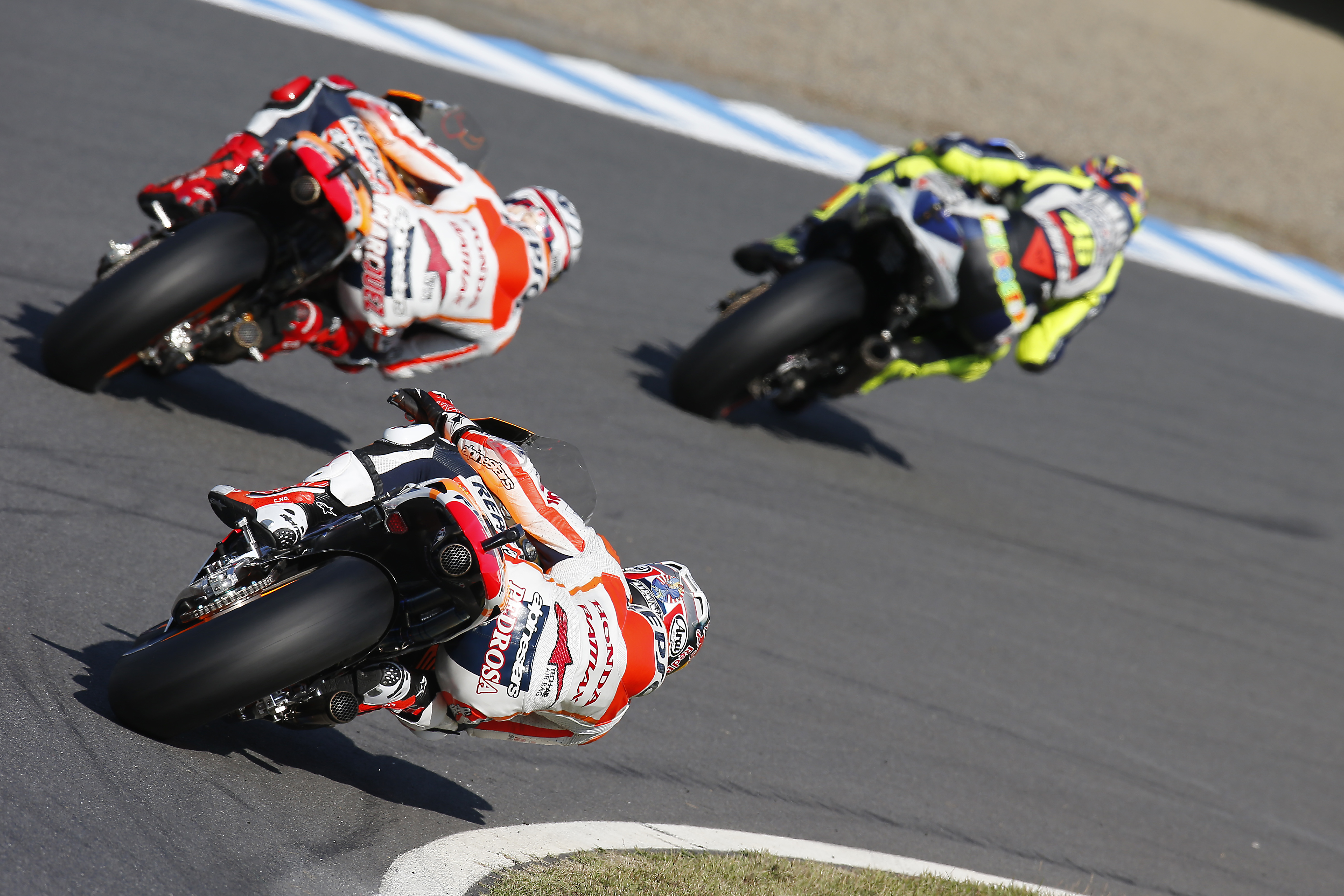 Valentino Rossi, riding his Factory Yamaha, being followed by the Repsol Honda's of Marc Márquez and Dani Pedrosa at the 2013 Japanese Grand Prix.